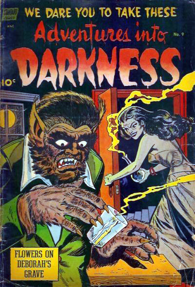 Cover of Adventures Into Darkness #9, April 1953